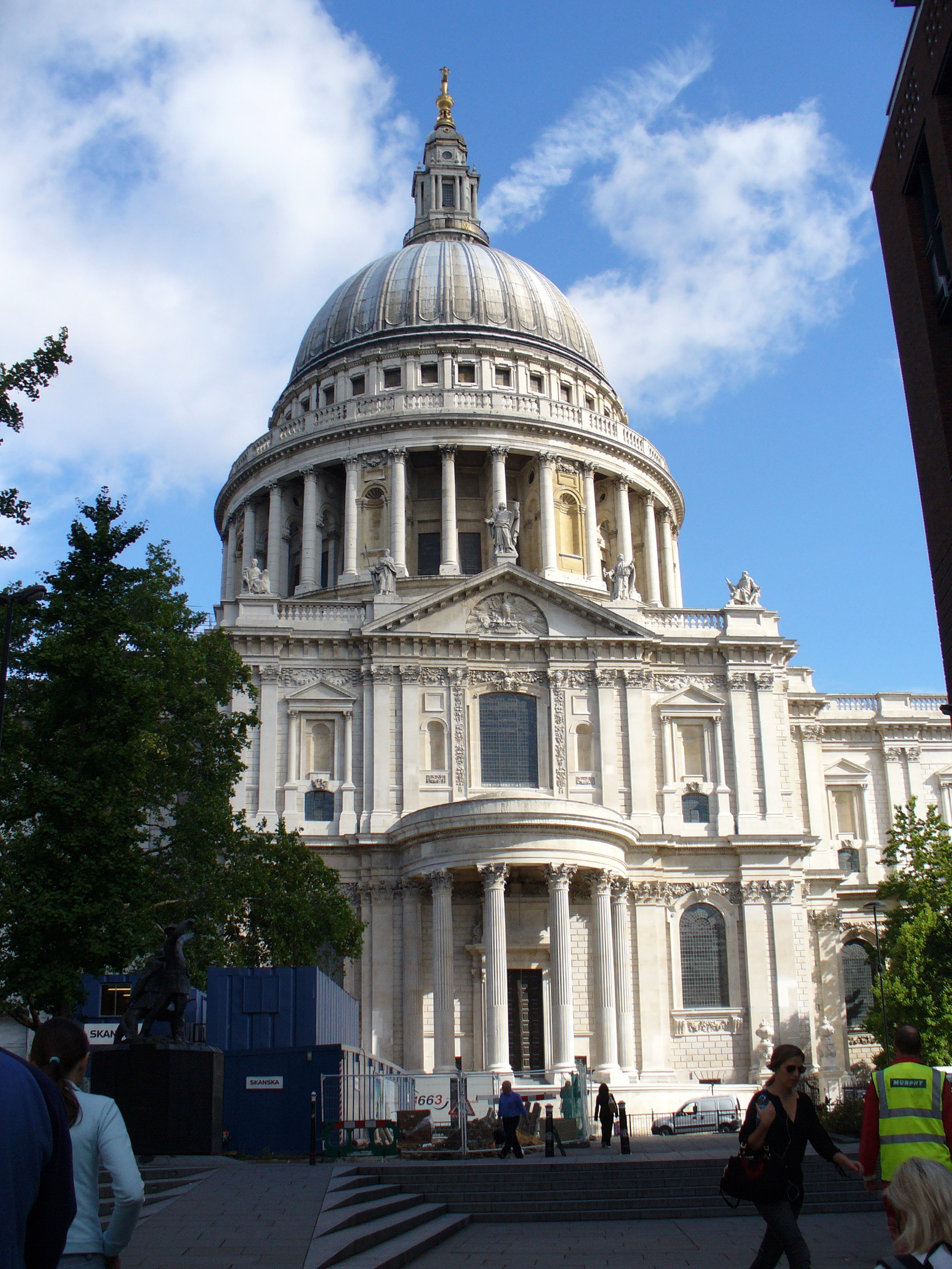 view of st. Paul's Cathedral with dome